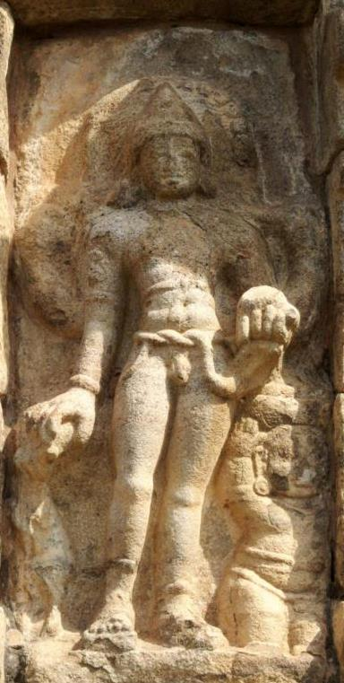 Bhikshatana